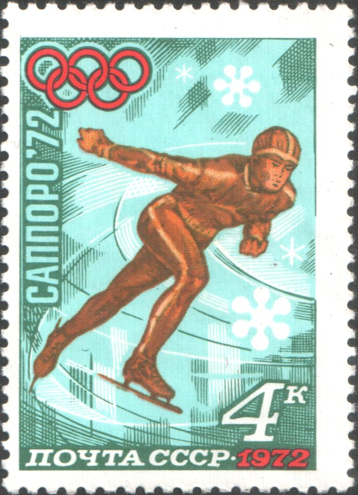 USSR stamp